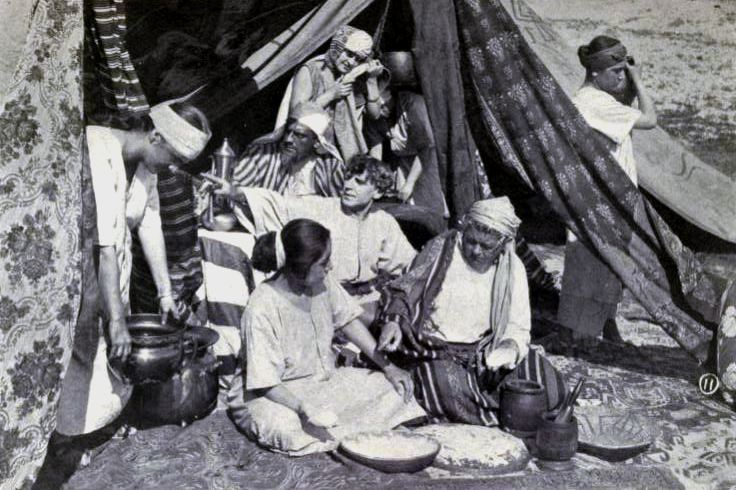 Still from the American film serial The Black Box (1915) with Frank MacQuarrie, the other actors and actresses are not identified, facing page 250 of the novel. The circled 11 indicates that the still is from episode 11 of the film serial. Caption: Feerda, the chief's daughter, listens enraptured to Craig's tales of faraway America.